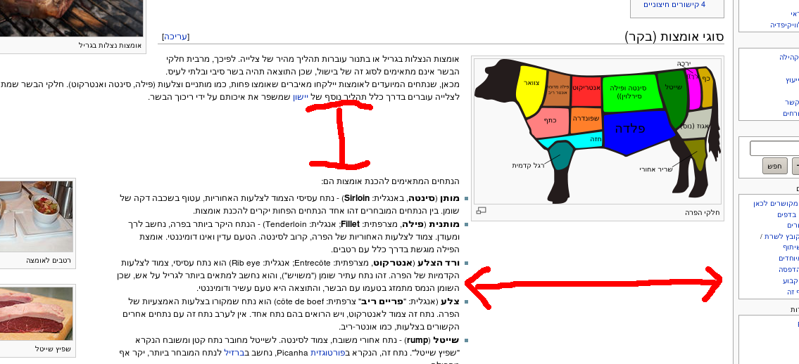 Disply problem on he:אומצה